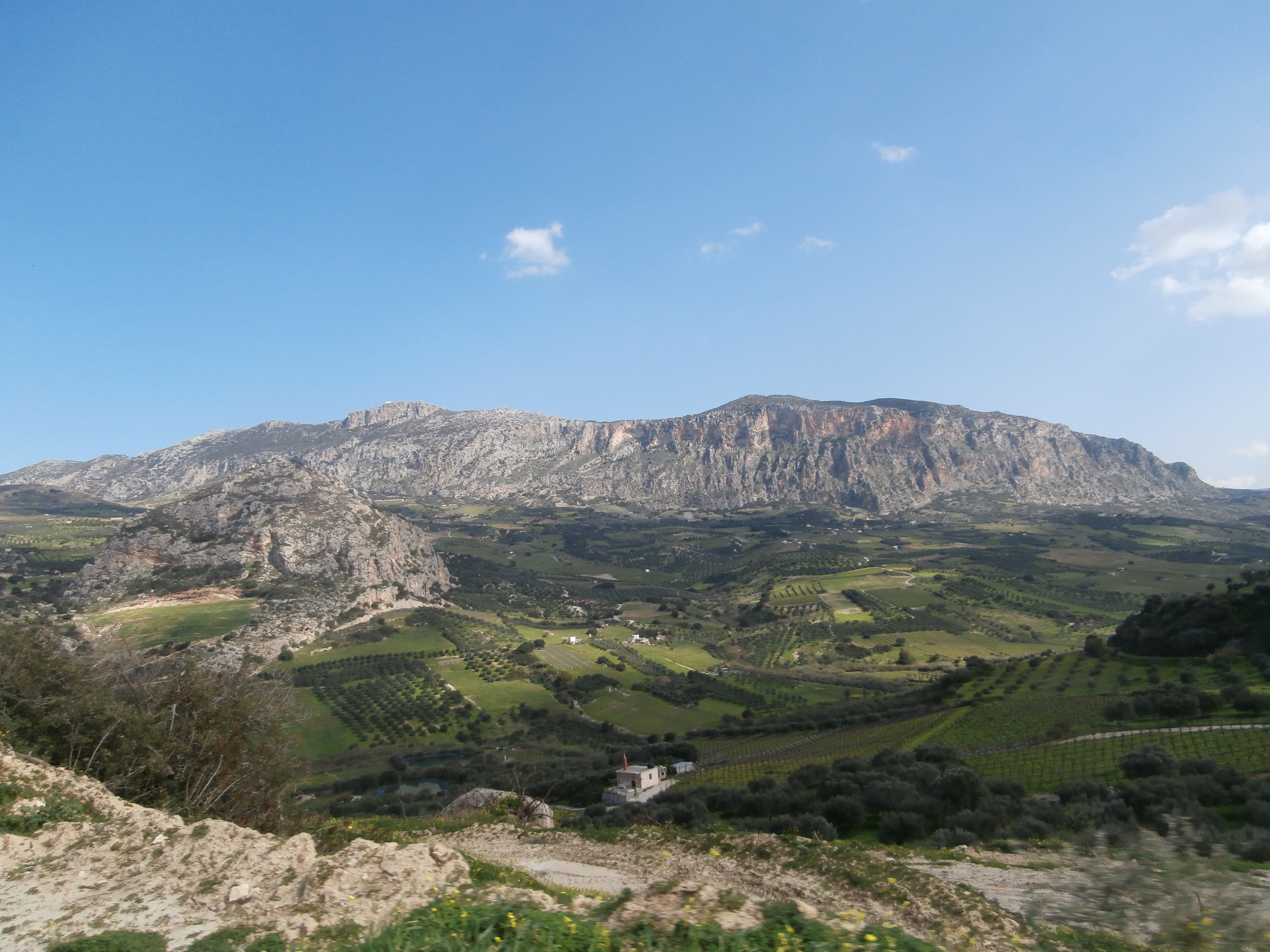 The west slope of mt Yuchtas